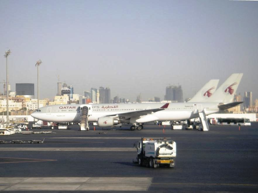 Qatar Airways at Doha International Airport.